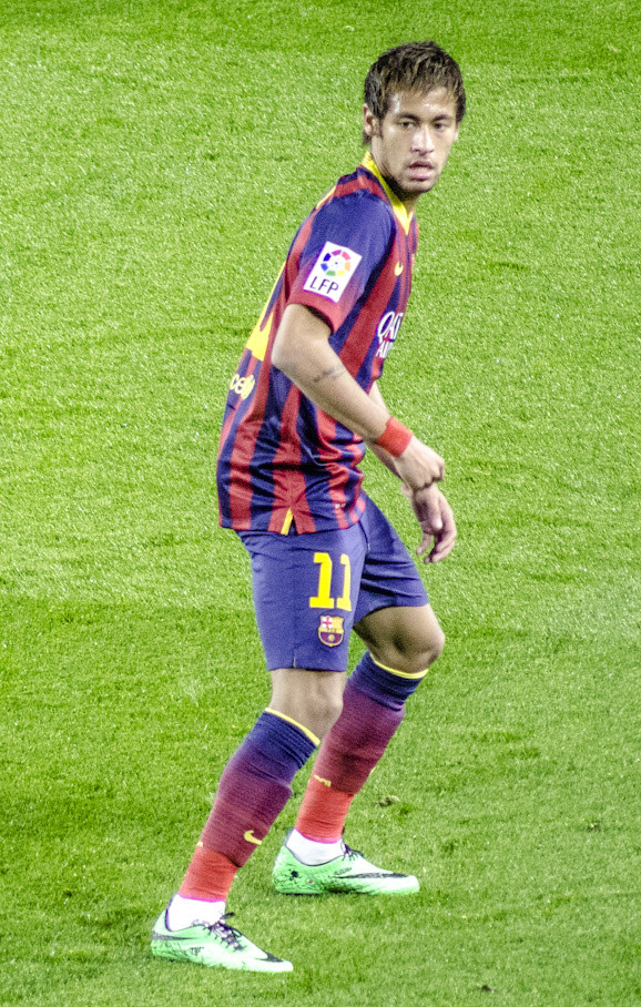 Neymar playing for FC Barcelona against Almeria on 2 March 2014